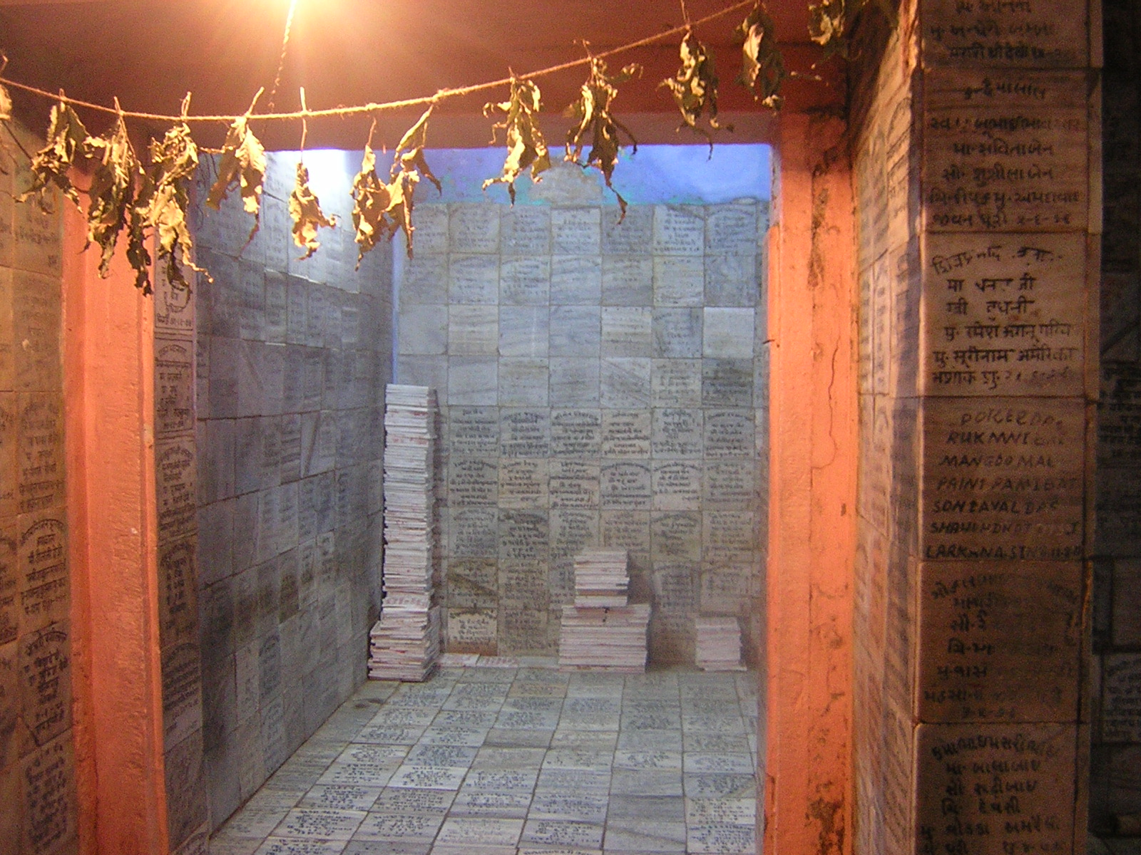 A part of a small temple in Vrindavan, India, where you can have your name put on a tile and put on the temple's walls, ceiling and floor … in return for a donation of course.